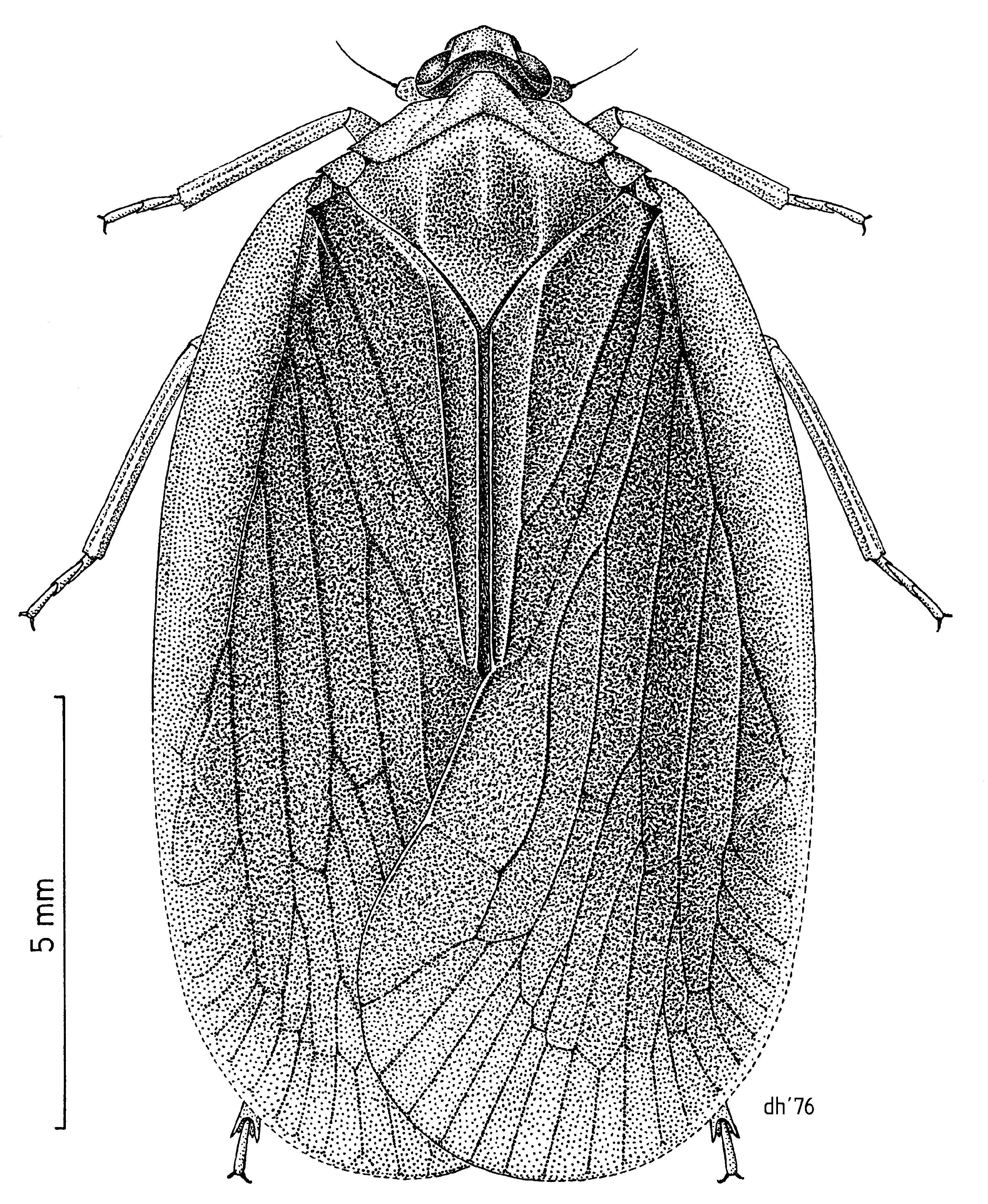 (Hemiptera: Achilidae) Achilus flammeus illustrated by Des Helmore.